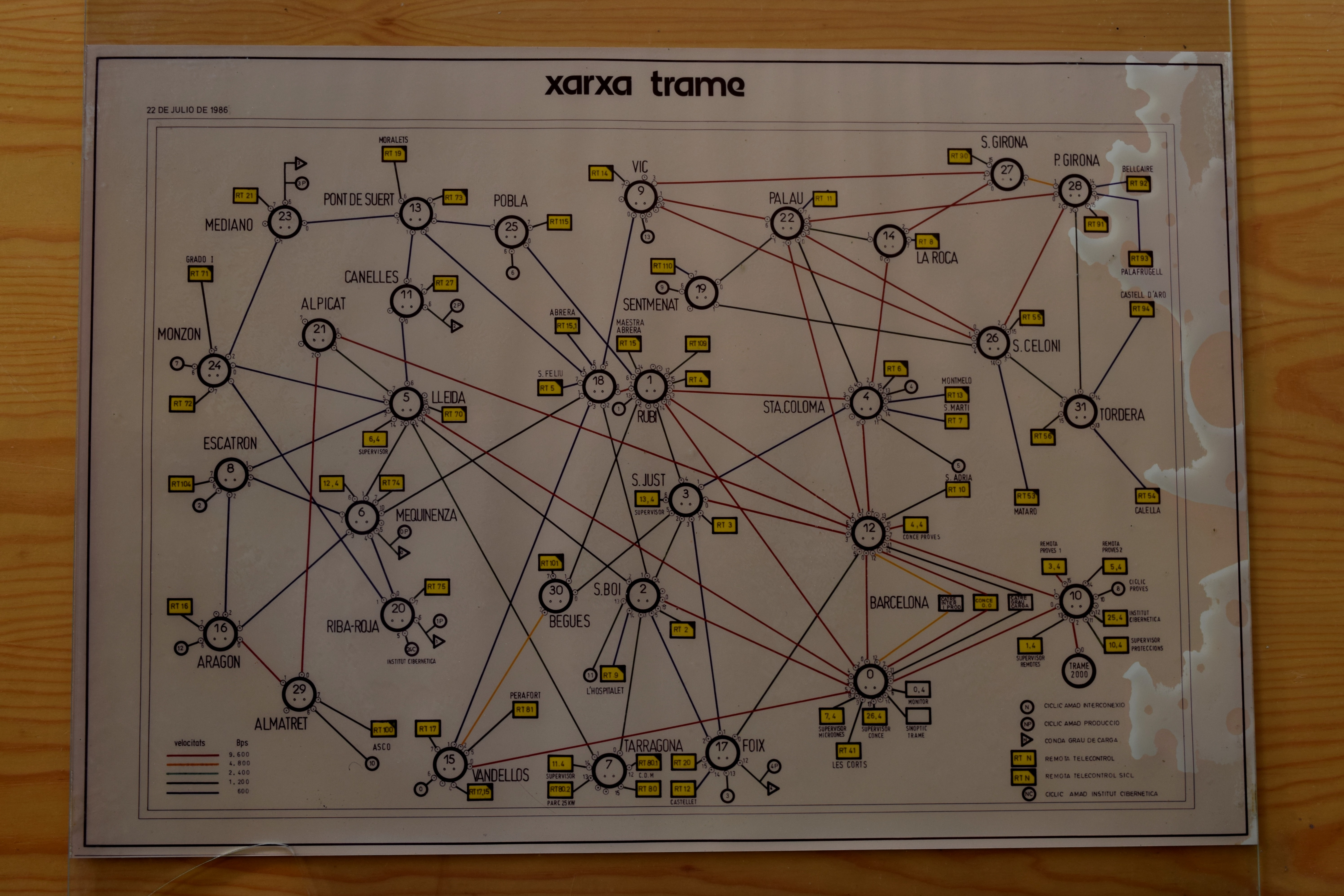 Drawing of the TRAME packet switching network by 1986